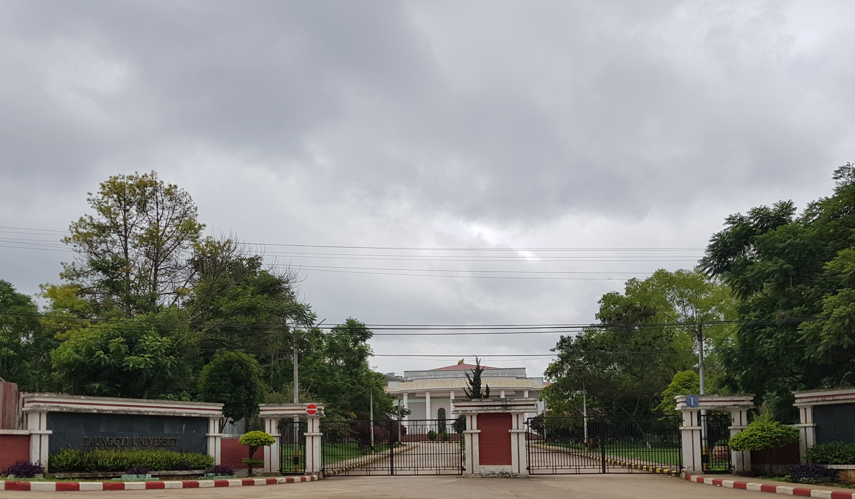 Convocation Hall of Taunggyi University